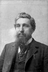 Augustus Reinhardt 1842-1943